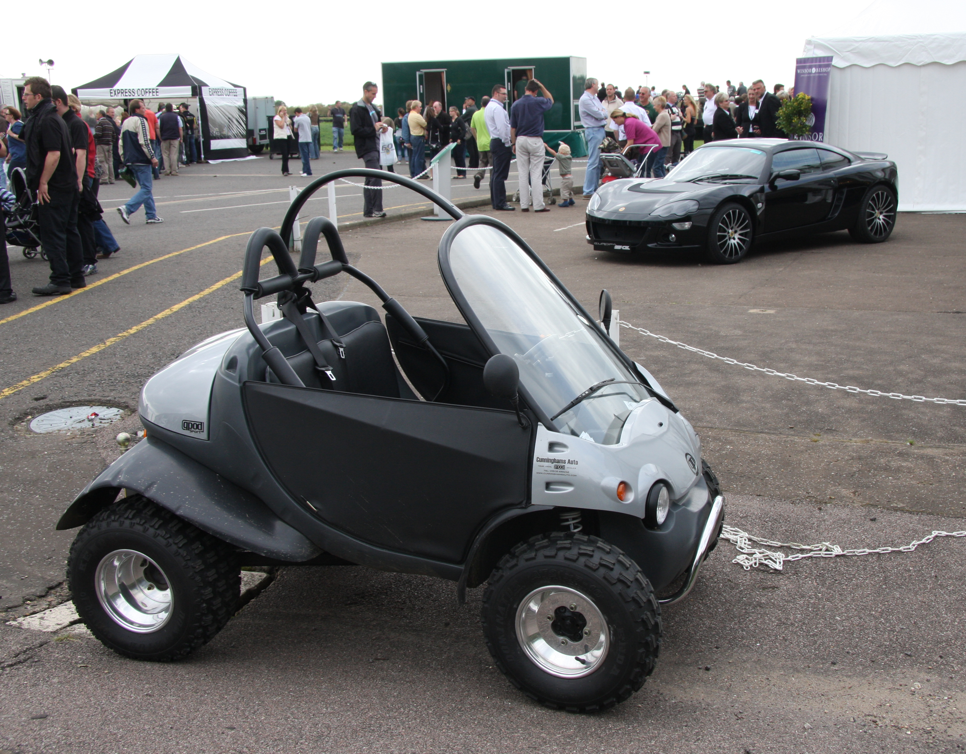 Qpod Sport and Lotus Europa Lotus 60th Celebration